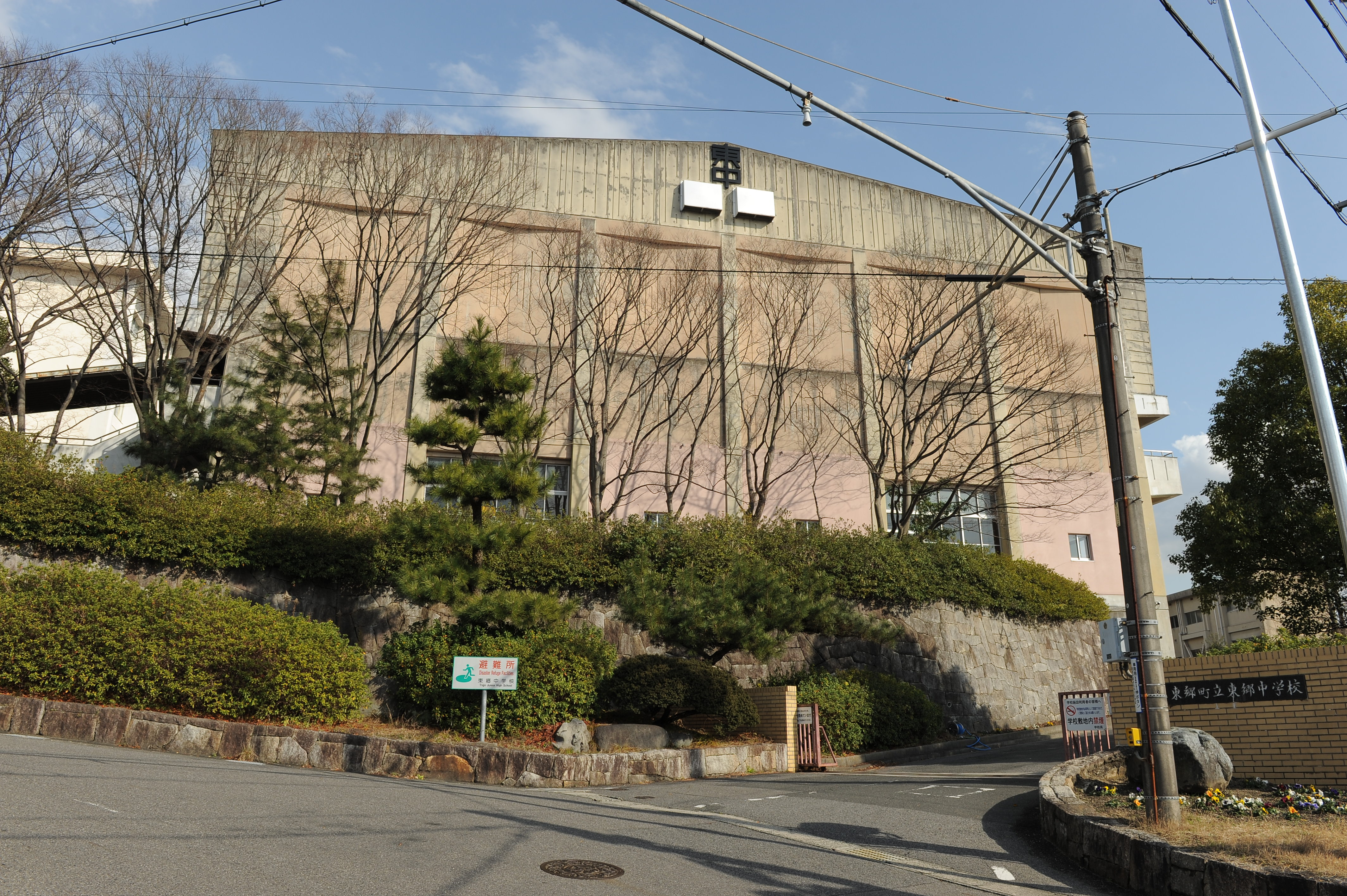 Togo Junior High School, Togo, Aichi